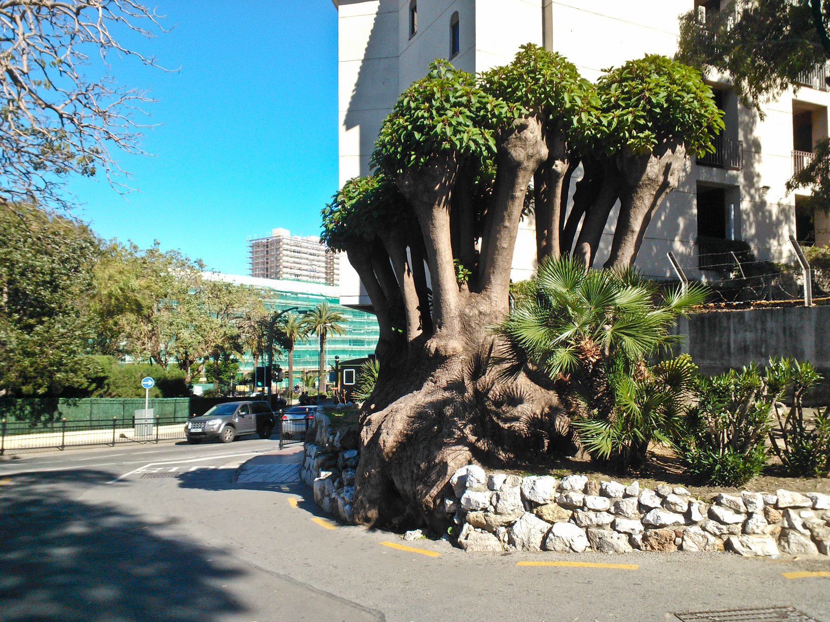 Site in Gibraltar where IRA member Seán Savage was shot by the SAS as part of Operation Flavius in 1988.